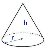 geometric presentation